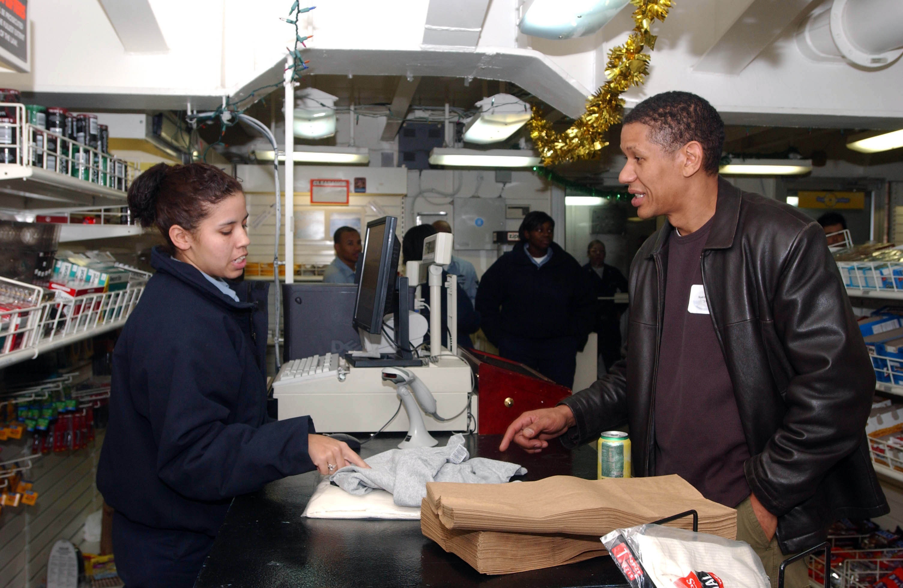 Pacific Ocean (Dec. 11, 2004) - Television actor Scott Lawrence purchases souvenirs from the ship's store during a visit to the aircraft carrier USS Nimitz (CVN 68). Nimitz is currently conducting Composite Training Unit Exercise (COMPTUEX) off the coast of southern California. U.S. Navy photo by Photographer's Mate 2nd Class Elizabeth Thompson (RELEASED)